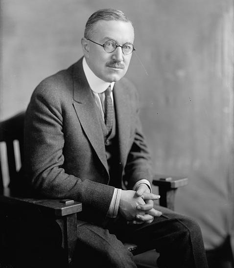 Joseph Rowan, Congressman from New York